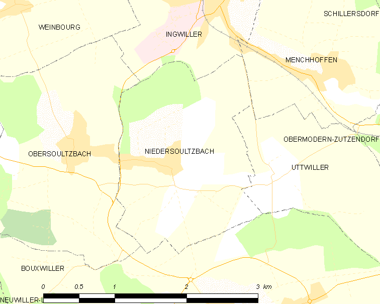 Map of French municipality